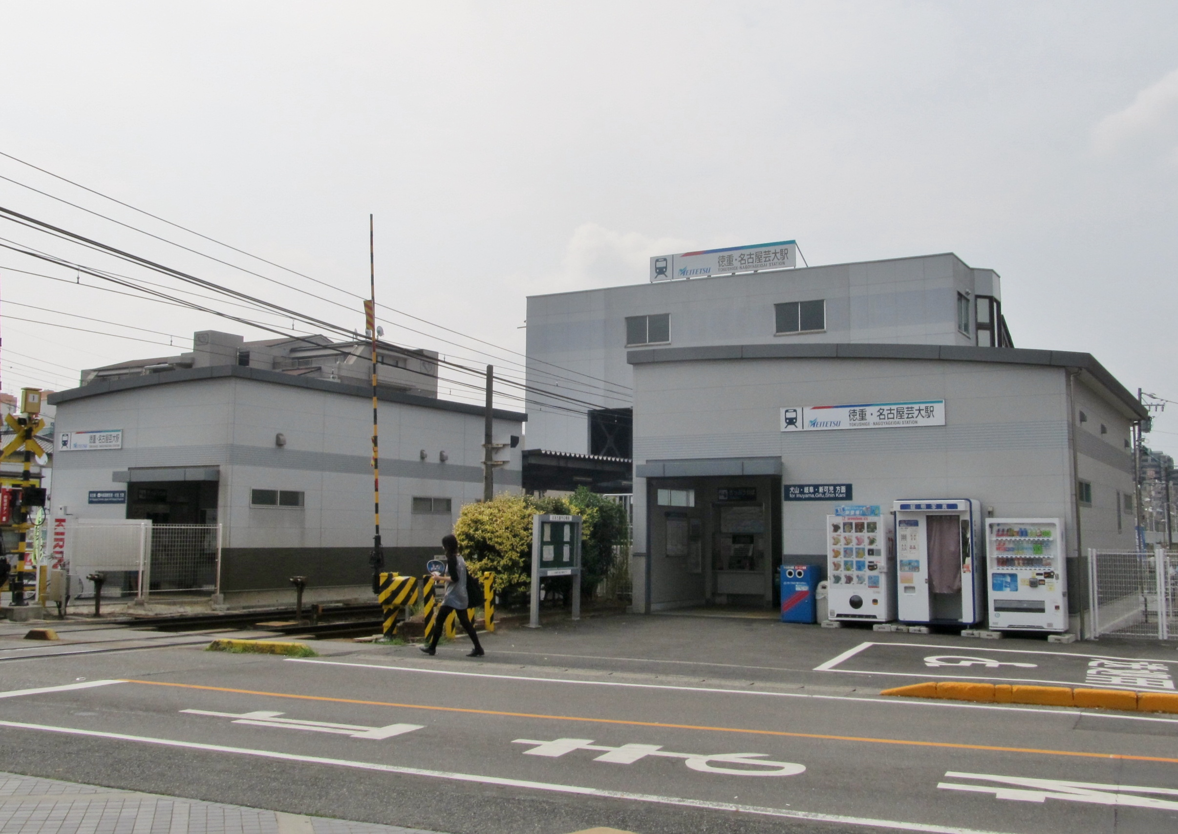 Nagoya Railroad Inuyama Line Tokushige-Nagoya-Geidai Station Building